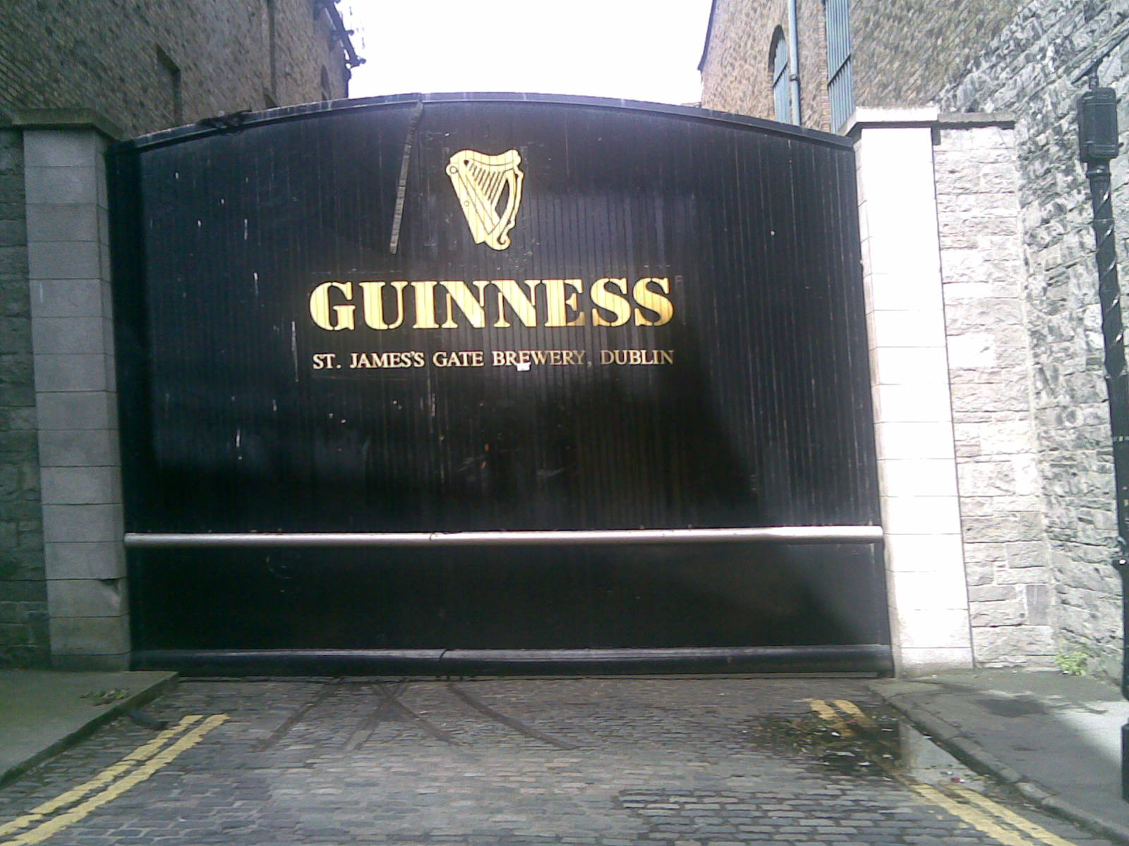 Gate in front of the Guinness factory in Dublin